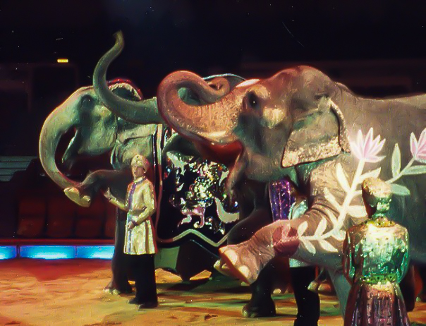 Dan Koehl at Circus Krone in Germany 2001